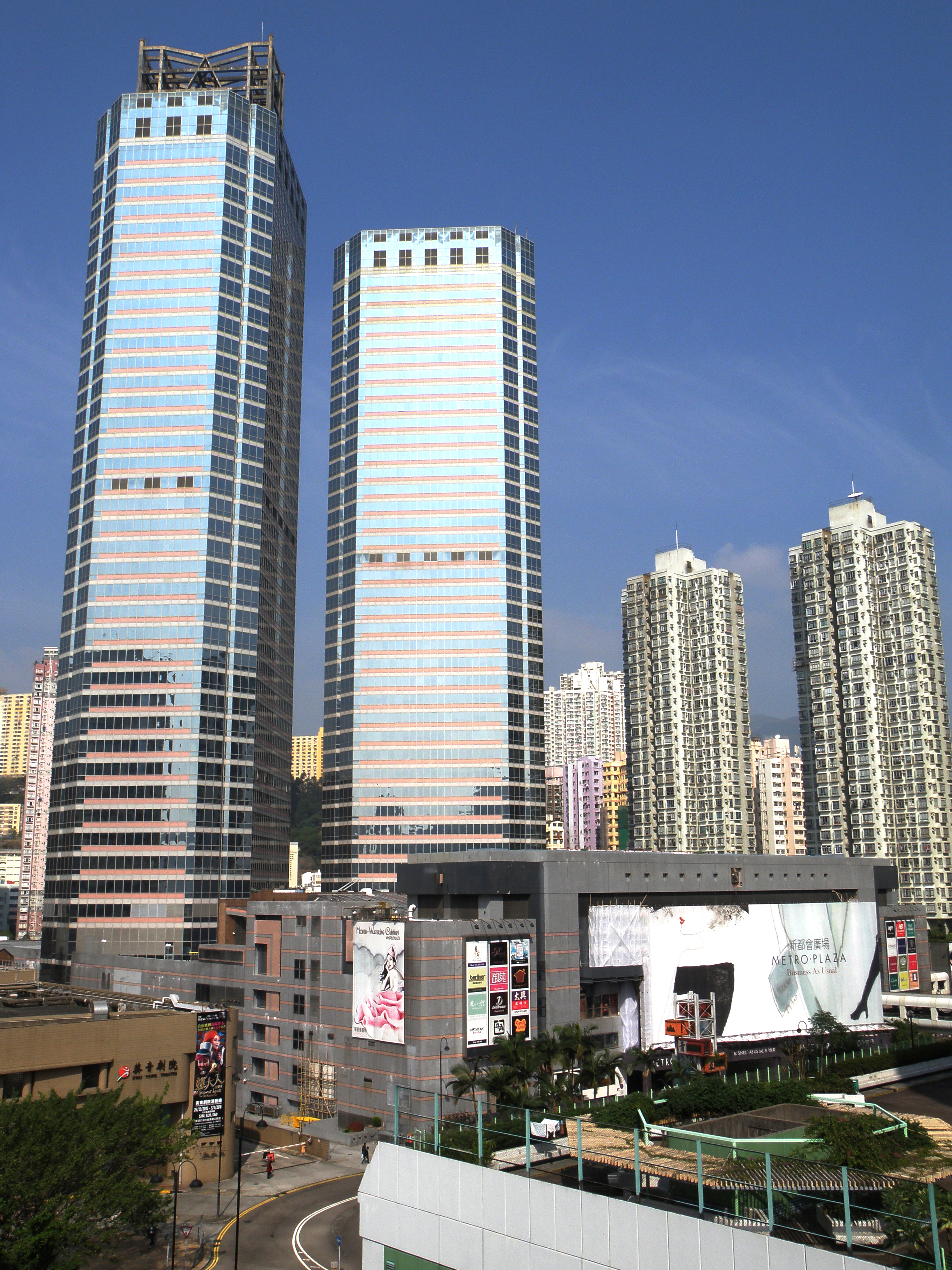 Metroplaza in Kwai Fong, Hong Kong.